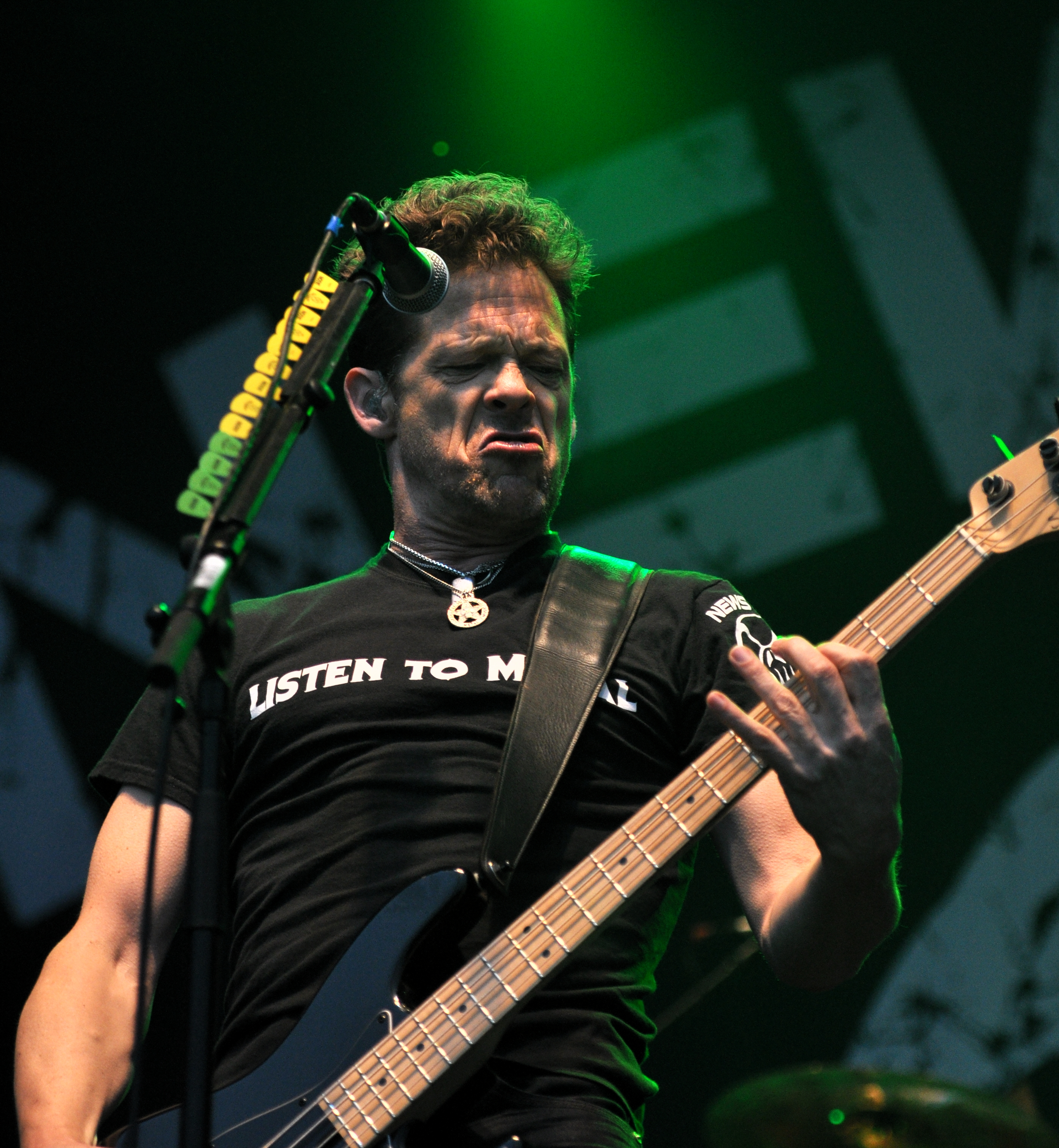 Jason Newsted with his Band Newsted at Rock am Ring 2013